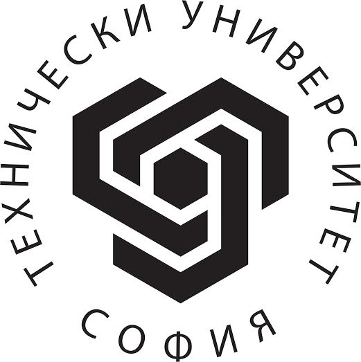 New logo of the technical university Sofia.